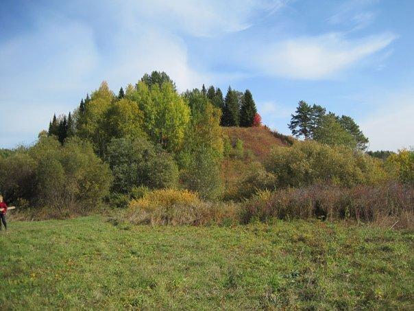 Photo of the Kushman fort (Uchkakar) IX-XIII AD (Yar district, Udmurtia)